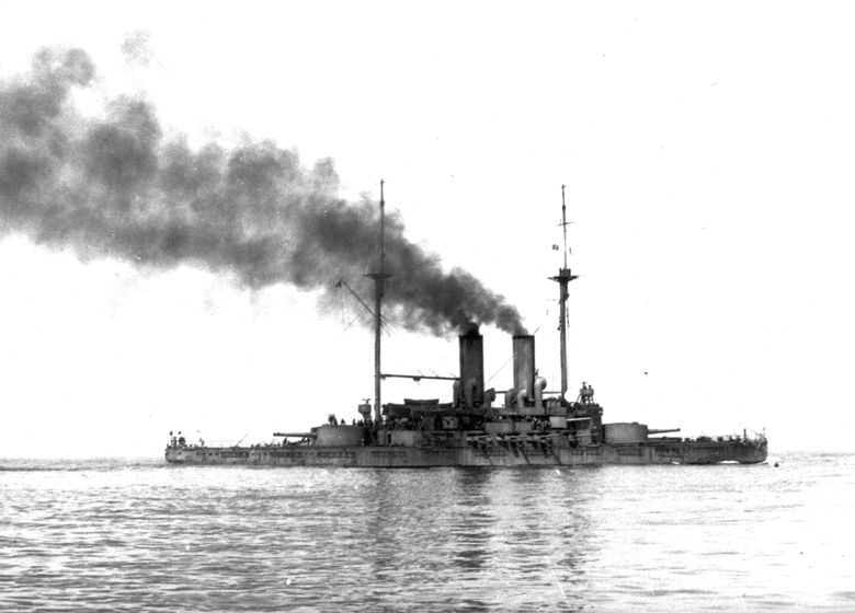 Imperial Russian battleship Tri Svyatitelya.